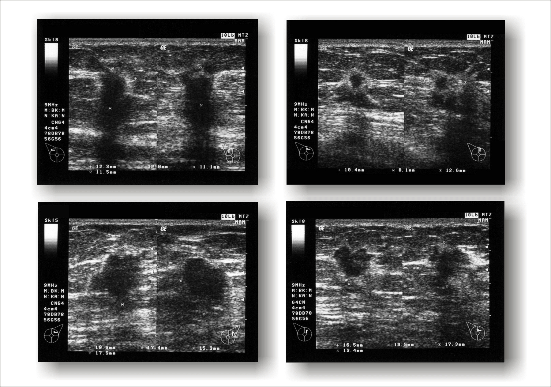 breastcancer in ultrasound